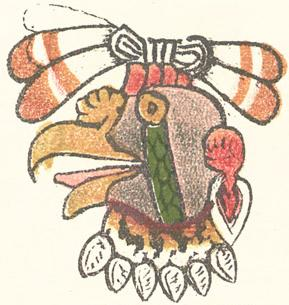 The Aztec day sign cozcacuauhtli (vulture).